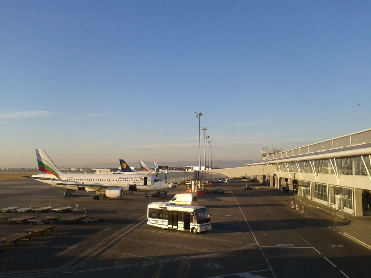 Bulgaria Air Airbus A319 at Sofia Airport